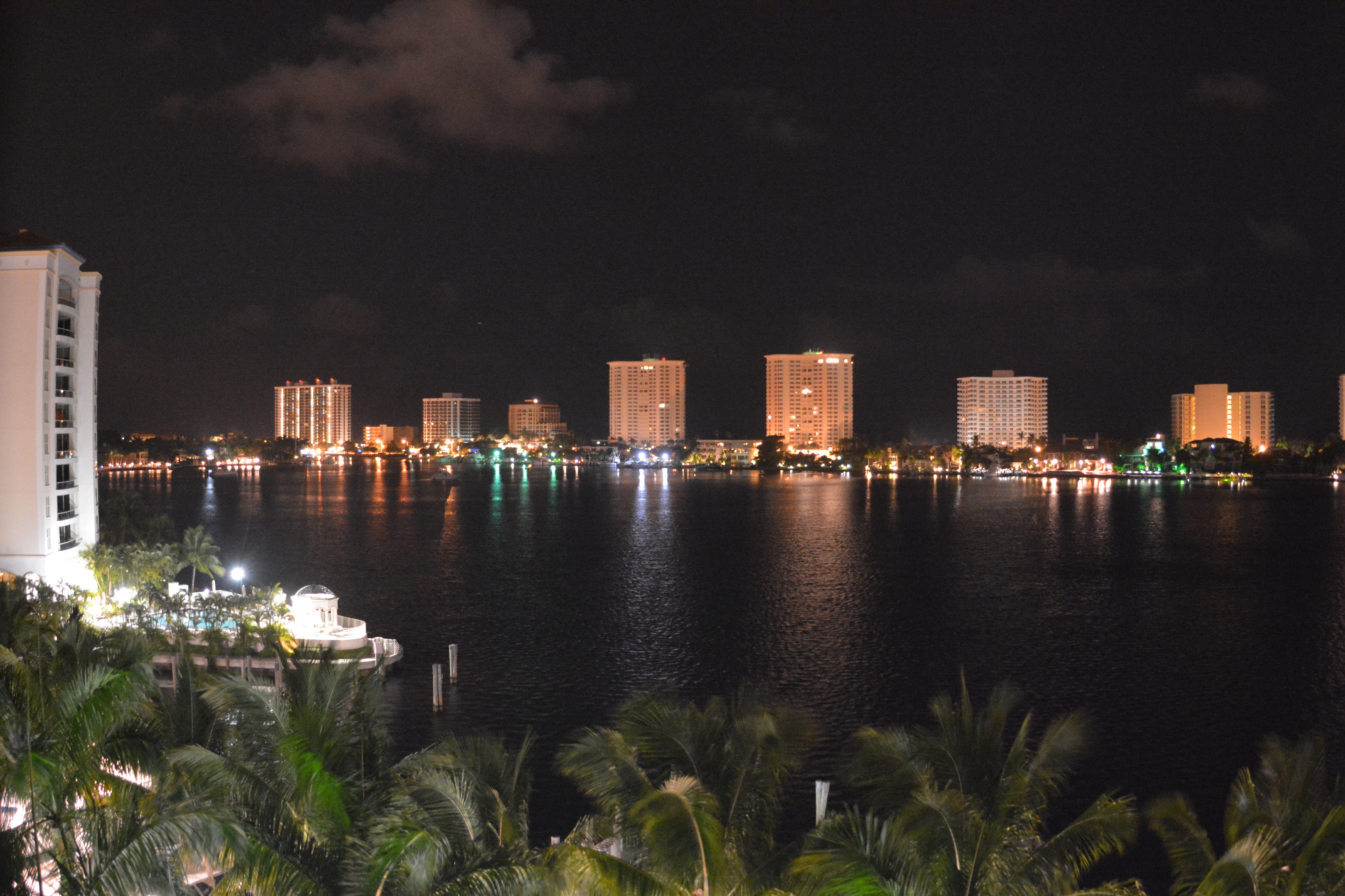 Boca Bay as seen from the Yacht Club building at the Boca Resort photo D Ramey Logan